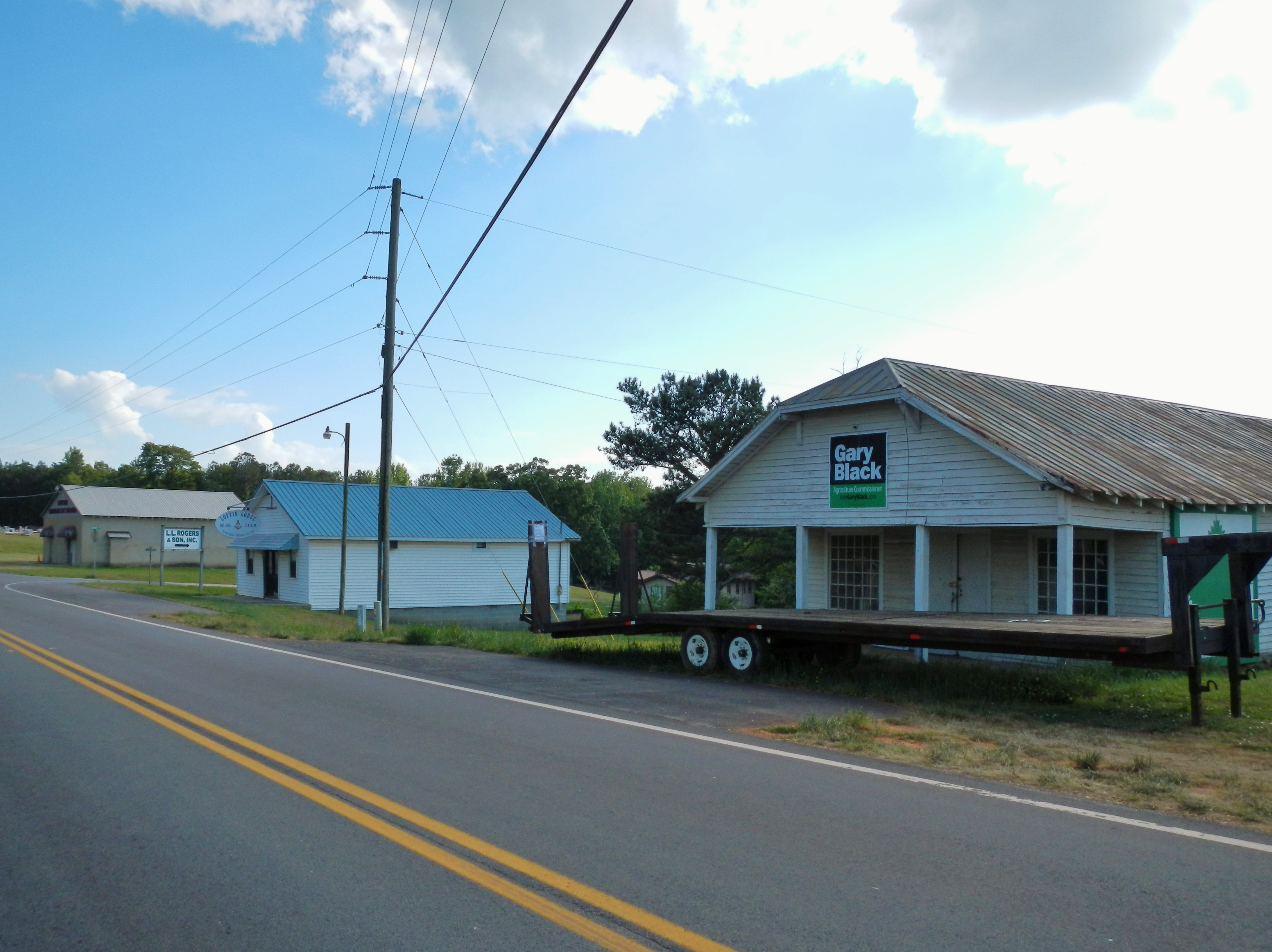 This is a photograph of Ephesus, Georgia.